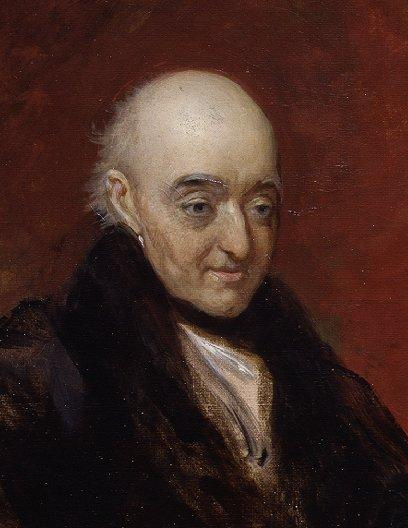 Detail of Maria-Louisa Phipps (née Campbell), Samuel Rogers, Caroline, Lady Stirling-Maxwell, by Frank Stone (died 1859), given to the National Portrait Gallery, London in 1921.